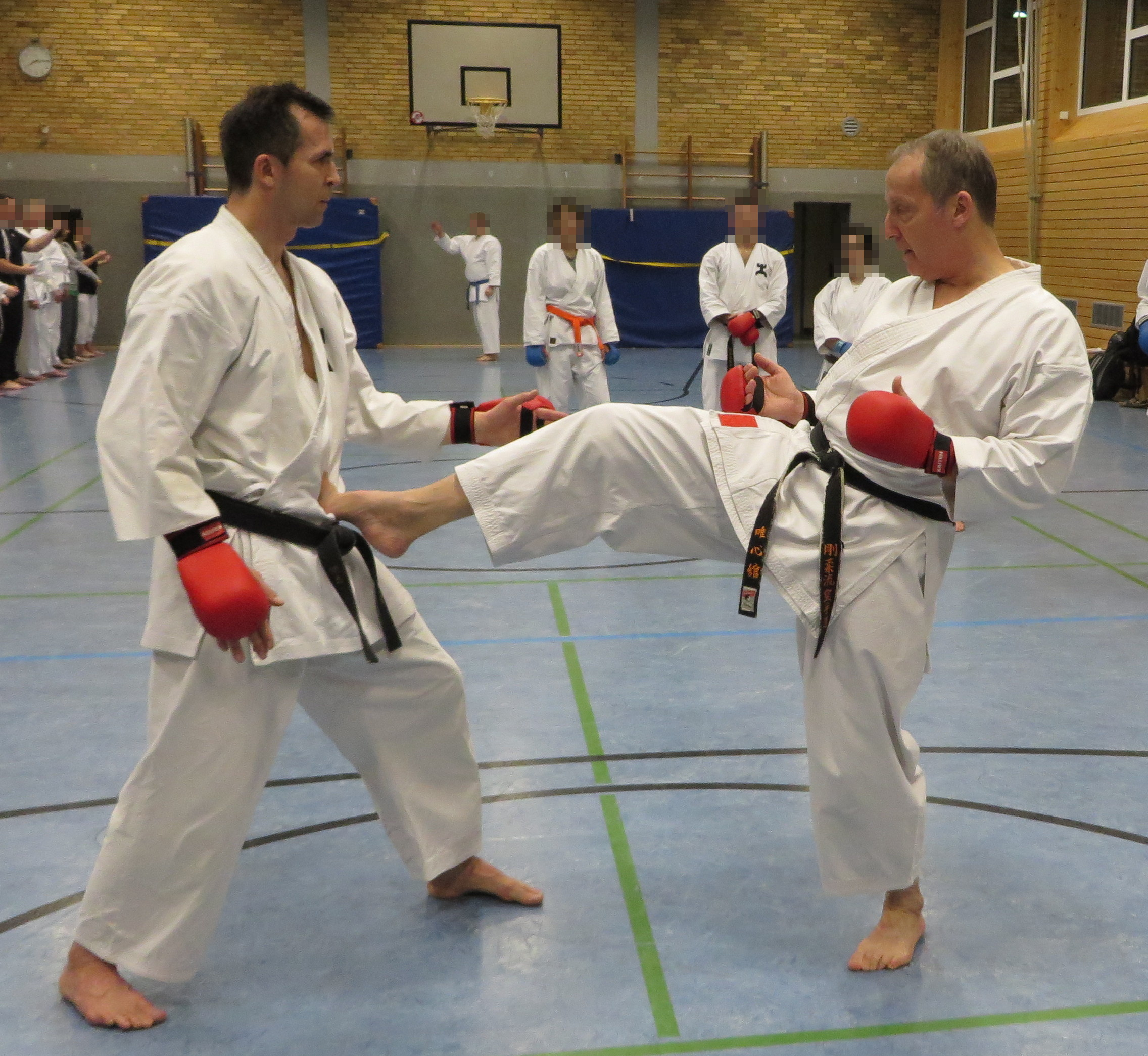 Horst Espeloer shows mae-geri during karate training at Turngemeinde Witten.